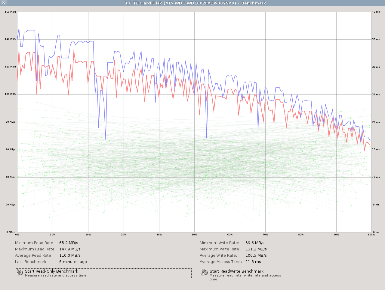 A screenshot showing an example outcome of a read/write and access-time benchmark using GNOME Disks on a HDD. The result shows a difference in transfer rate between inner and outer locations of the plates (red: write, blue: read; left axis). The access time is plotted in green and described by the right axis.